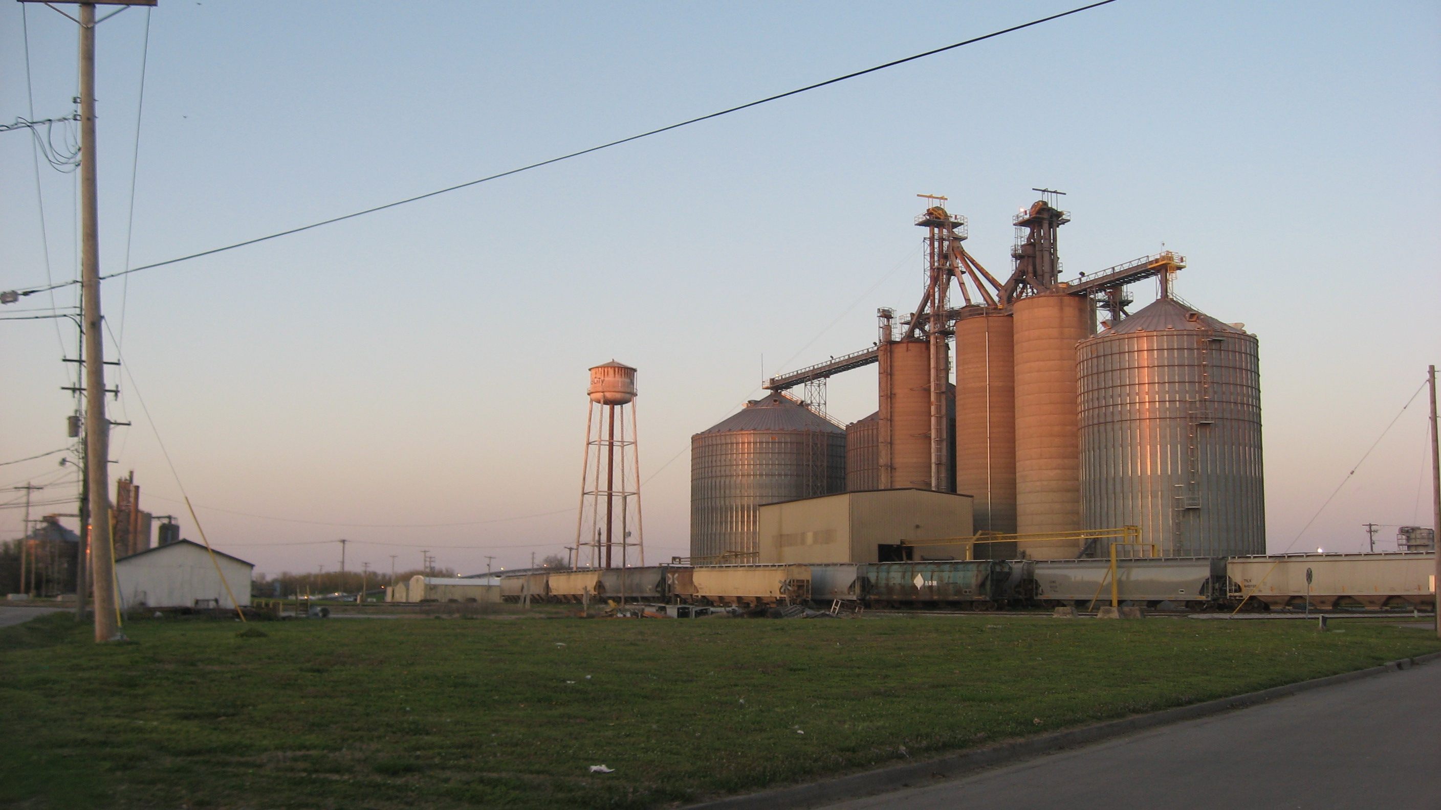 Overview of the rail lines at Mound City, Illinois, United States. Along what was once Commercial Avenue (now occupied by the rail line with hoppers on it) was formerly located the Mound City Civil War Naval Hospital, which was built in 1858. Listed on the National Register of Historic Places in 1974, it has been destroyed, but not yet removed from the Register.